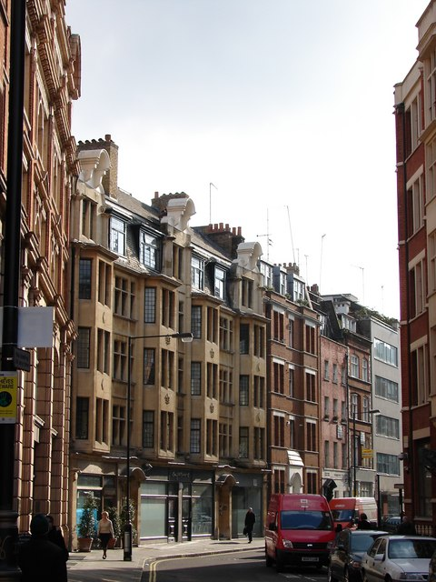 Flats in Newman Street Looking south from the road junction with Mortimer Street and Goodge Street.